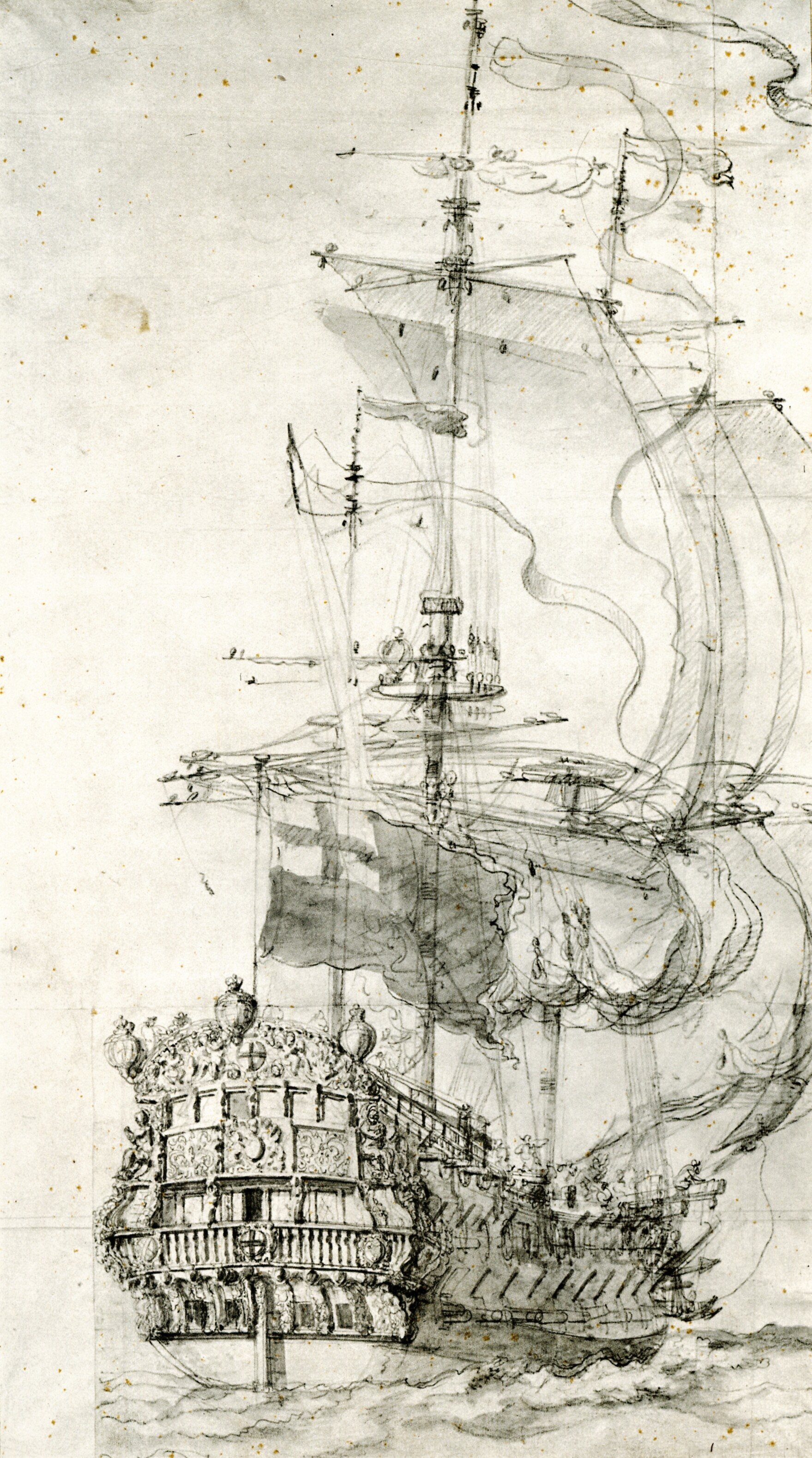 Portrait of the ‘Mordaunt’, Fourth Rate, built 1681, 46 guns.